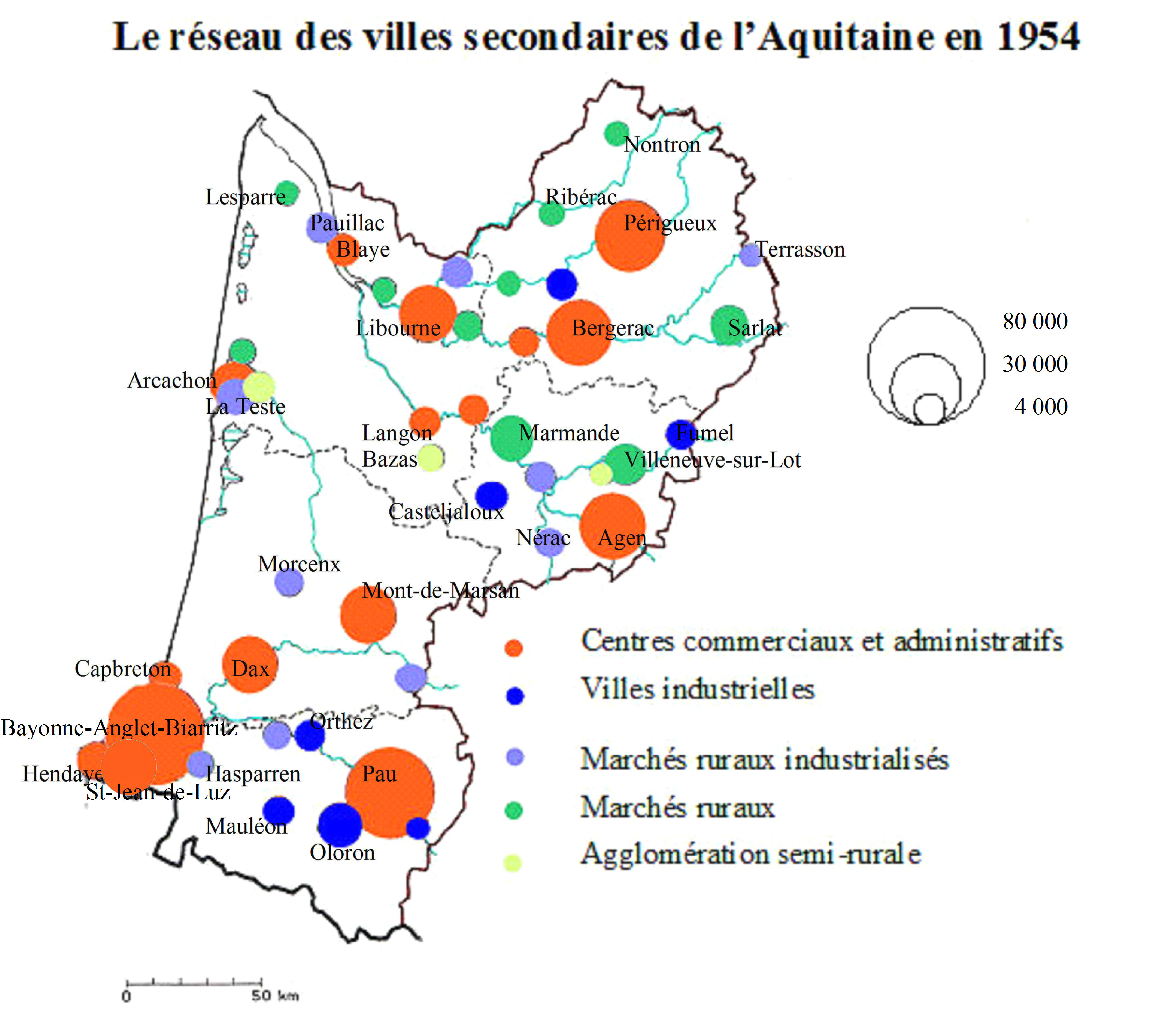 Figure showing the breakdown of secondary urban centers in Aquitaine, and their dominant function